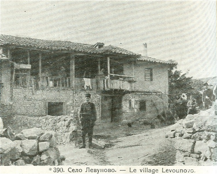 Kocho Georgiev Lyutov infront of hist house in Levunovo.